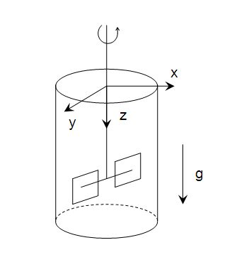 Mixing - associated coordinate system.